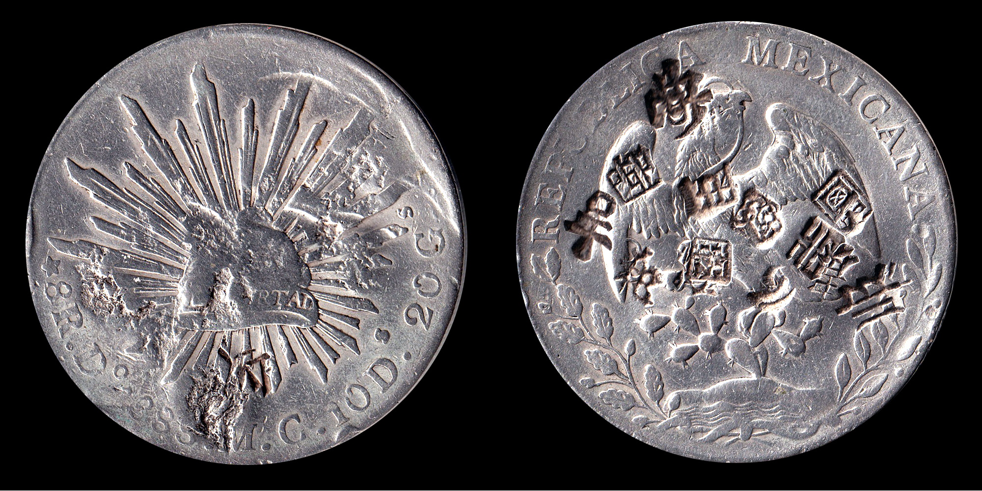 1888 Republica Méxicana 8 Reals Silver "Trade Coin" with multiple "chop" marks made by Chinese merchants to assure it authenticity.